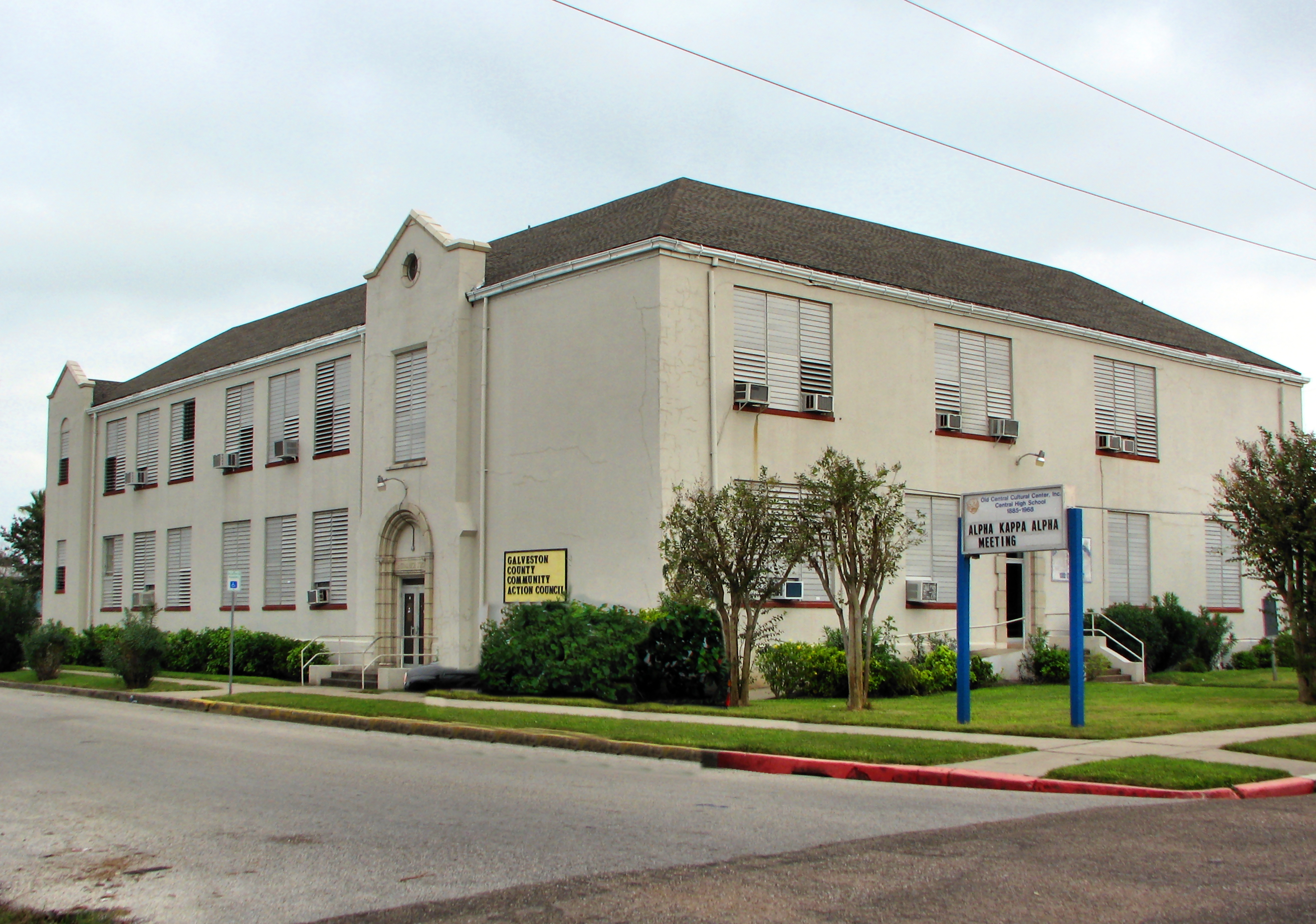 The original Central High School located in Galveston, Texas. Constructed in 1894, the building was heavily damaged by the 1900 Hurricane. The building was repaired and in 1905 a "Colored" Branch of the Rosenberg Library was added on to the western end of the building.